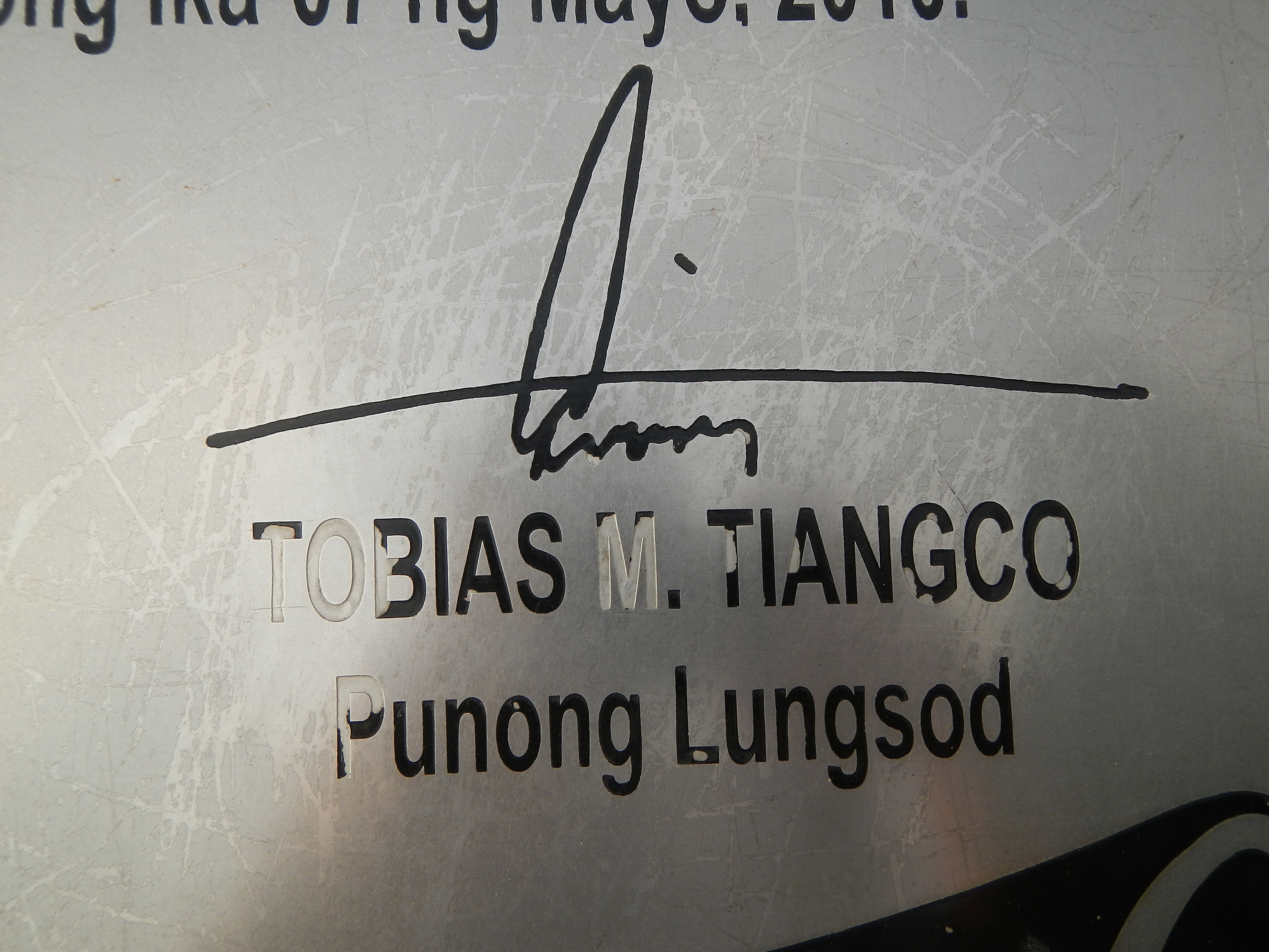 Upload Wizard photos of -- (general description of landmarks, town, church) - Navotas Bridge and polluted River along C-4 Road [1] Coordinates:14°39'0"N 120°56'54"E List of rivers and estuaries in Metro Manila [2] - the City Walk - along Navotas River, under the New Longest Bridge of Navotas, Manila Bay [3] Website - Del Pan Bridge, passing along north through Marcos Road or the Radial Road 10 [4] the Circumferential Road 4 [5] Navotas [6] that goes past Piers 2 to 16, the North Bay Pier Stations, all the way to Navotas River.[7] [8] - near and adjoining the - the Bus Grand Terminal of Navotas City - in - Navotas Centennial Park Navotas City Coordinates: 14°39'2"N 120°56'50"E - Navotas City Walk and Hanbi ICT Center.Toby Tiangco [9] signature in Navotas City Walk marker.